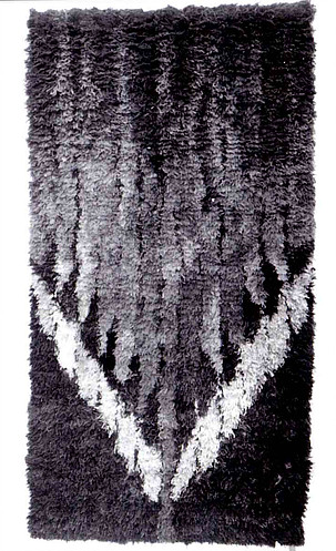 Rüijuvaip Elna Kaasik 1981